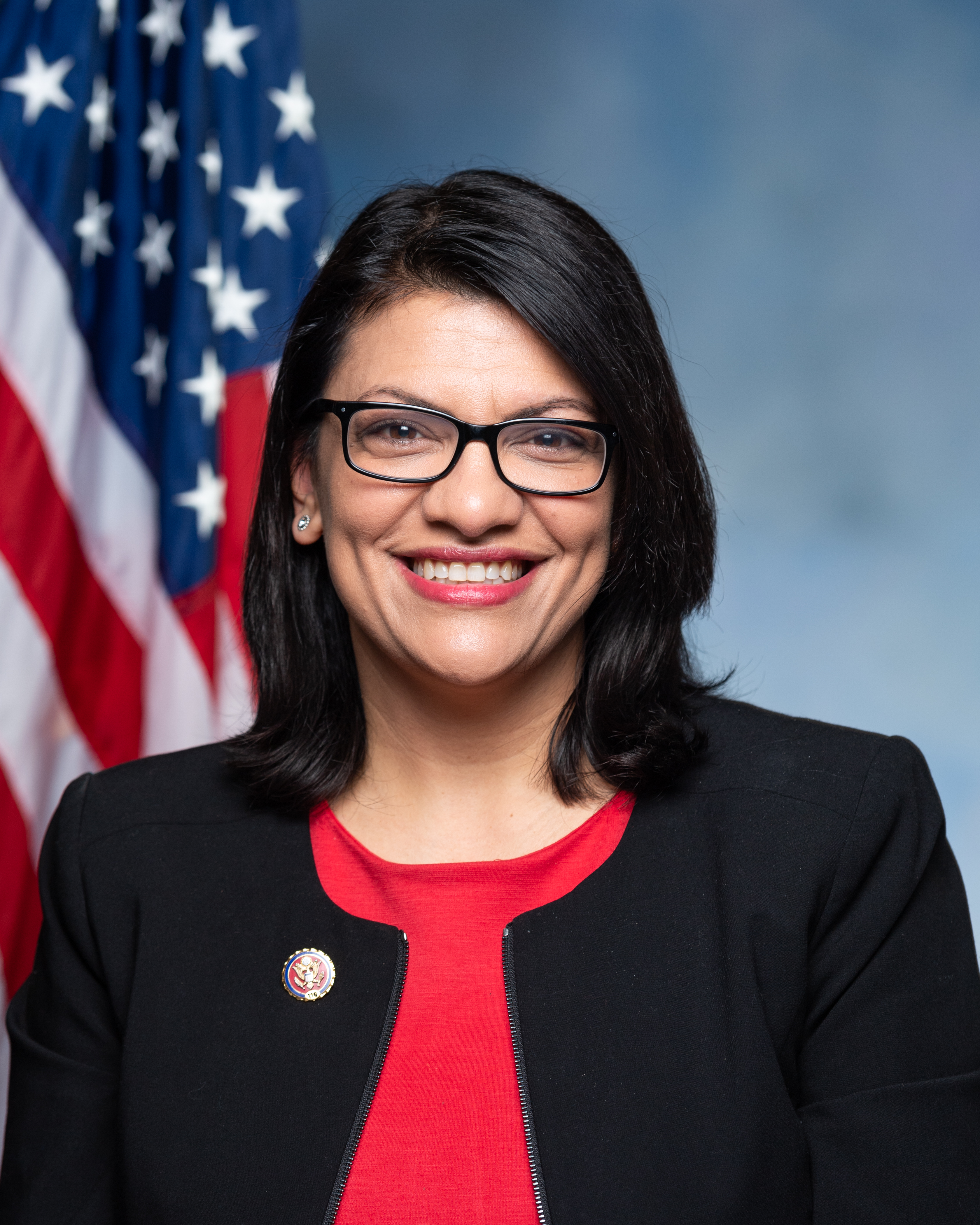 The official headshot of Rep. Rashida Tlaib (D-MI)